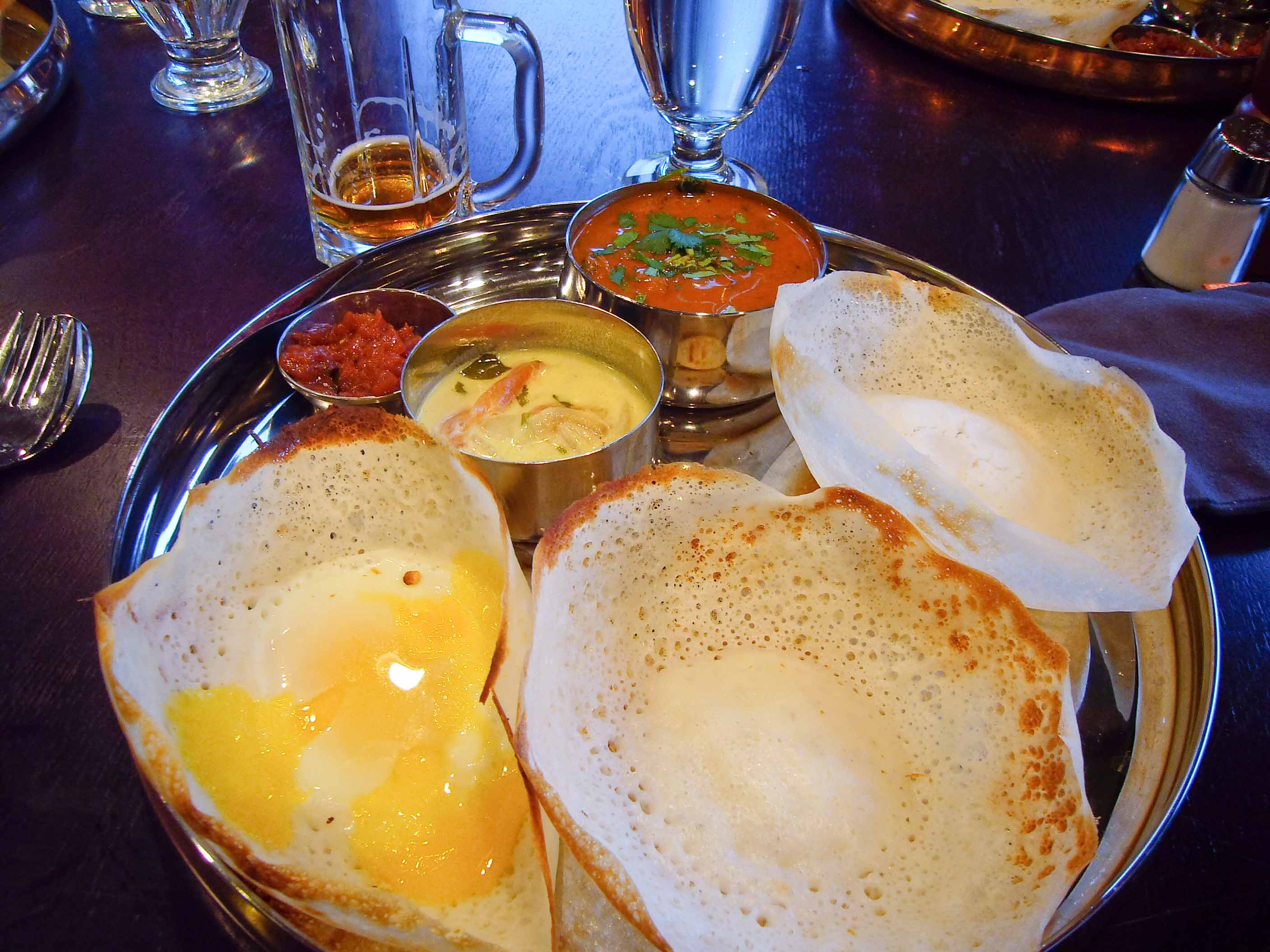 hoppers at house of dosas: fermented lentil flour combined with idlis (don't know how to describe them), one of which includes a fried egg on top. the idea is to tear at the hoppers and dip them in the curry accompanied with coconut sauce and onion chutney. delicious!